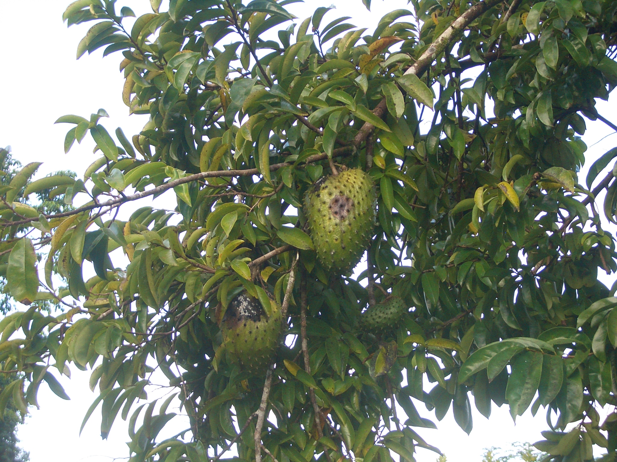 Soursop fruit on the tree, in an orchard near Japoonvale, northern Queensland.